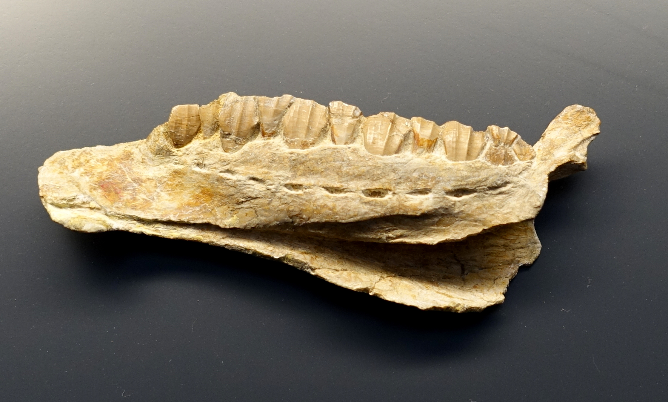 Exhibit in Museum für Naturkunde, Berlin, Germany.